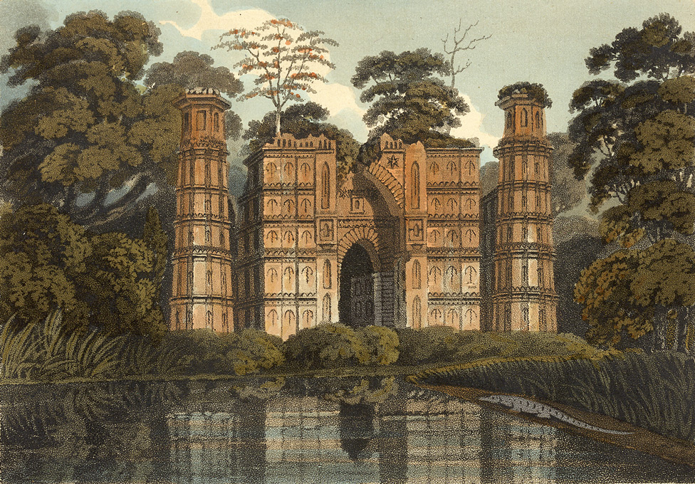 Dakhil Darwaza, an impressive gateway built in the year 1425 A.D. It is an important Muslim monument in anciant India.